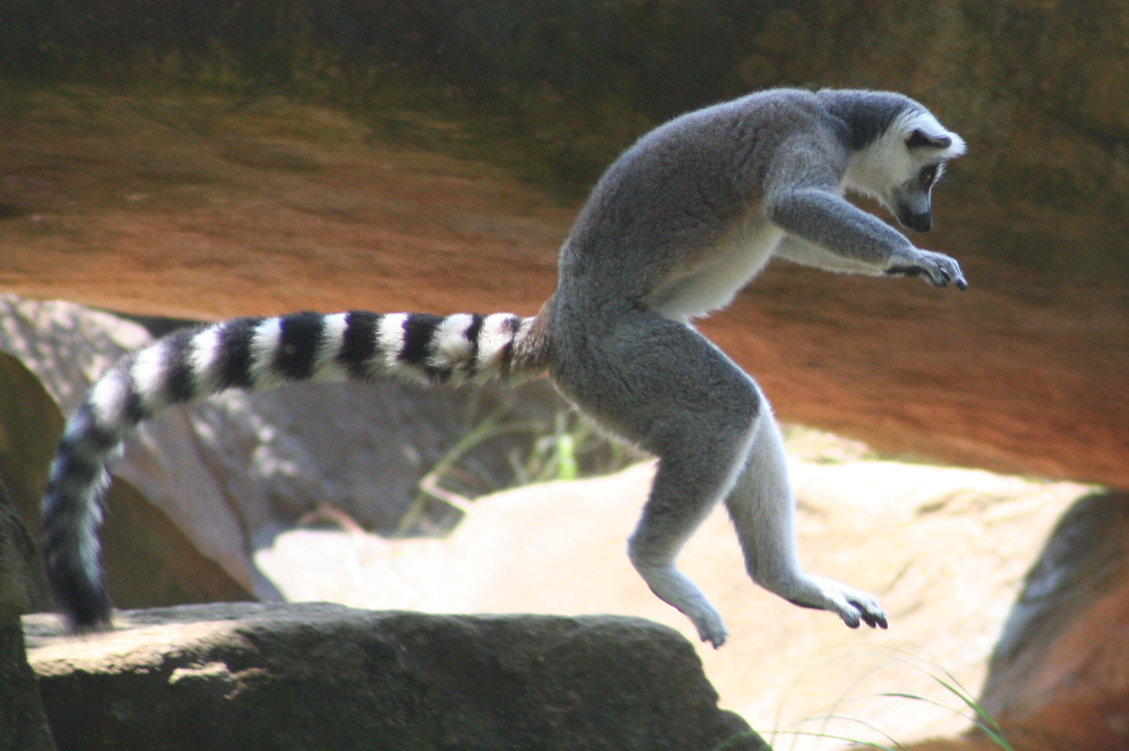 Ring tail lemur leaping from place to place.